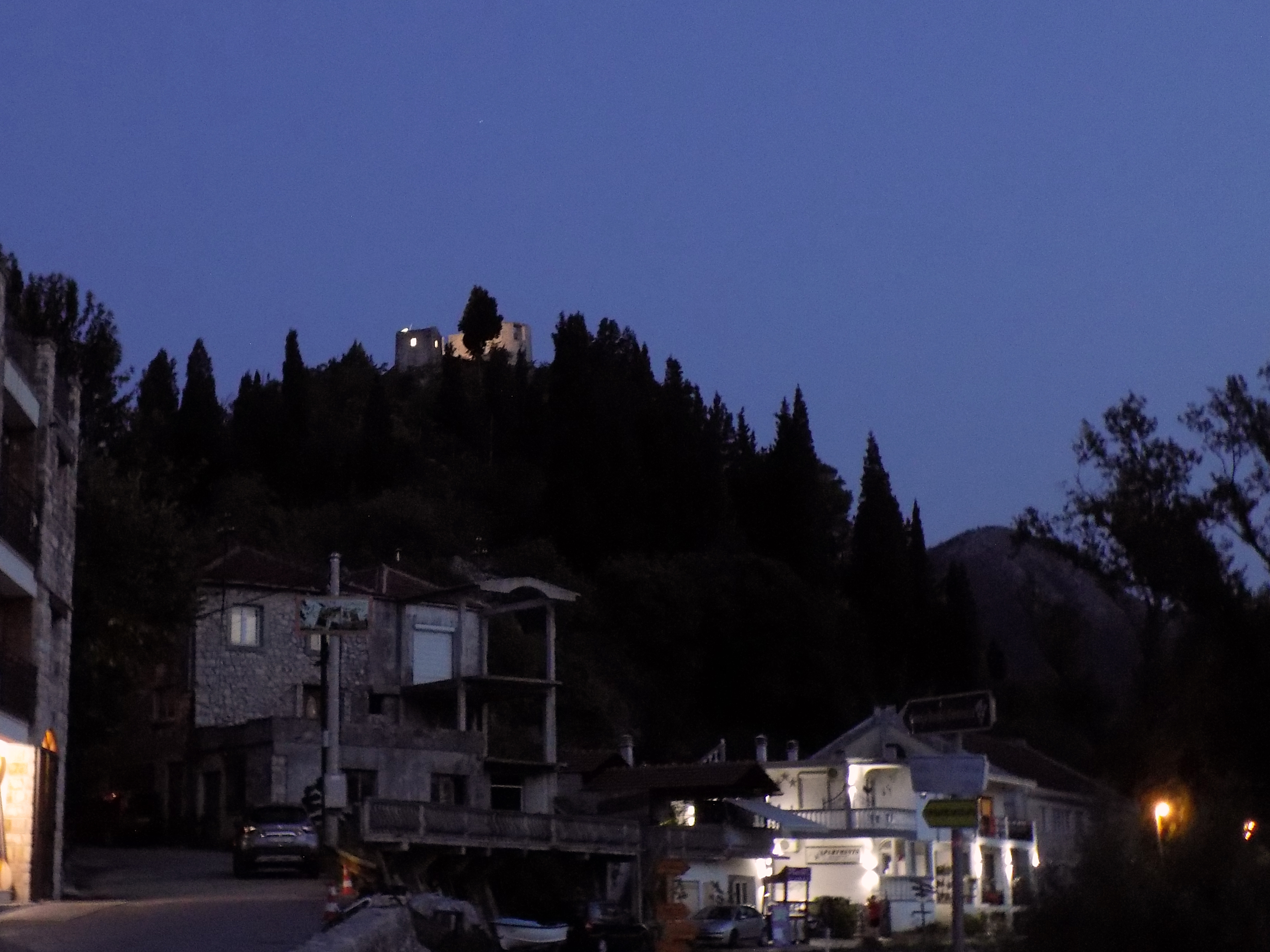 Fort Besac, Virpazar, Montenegro